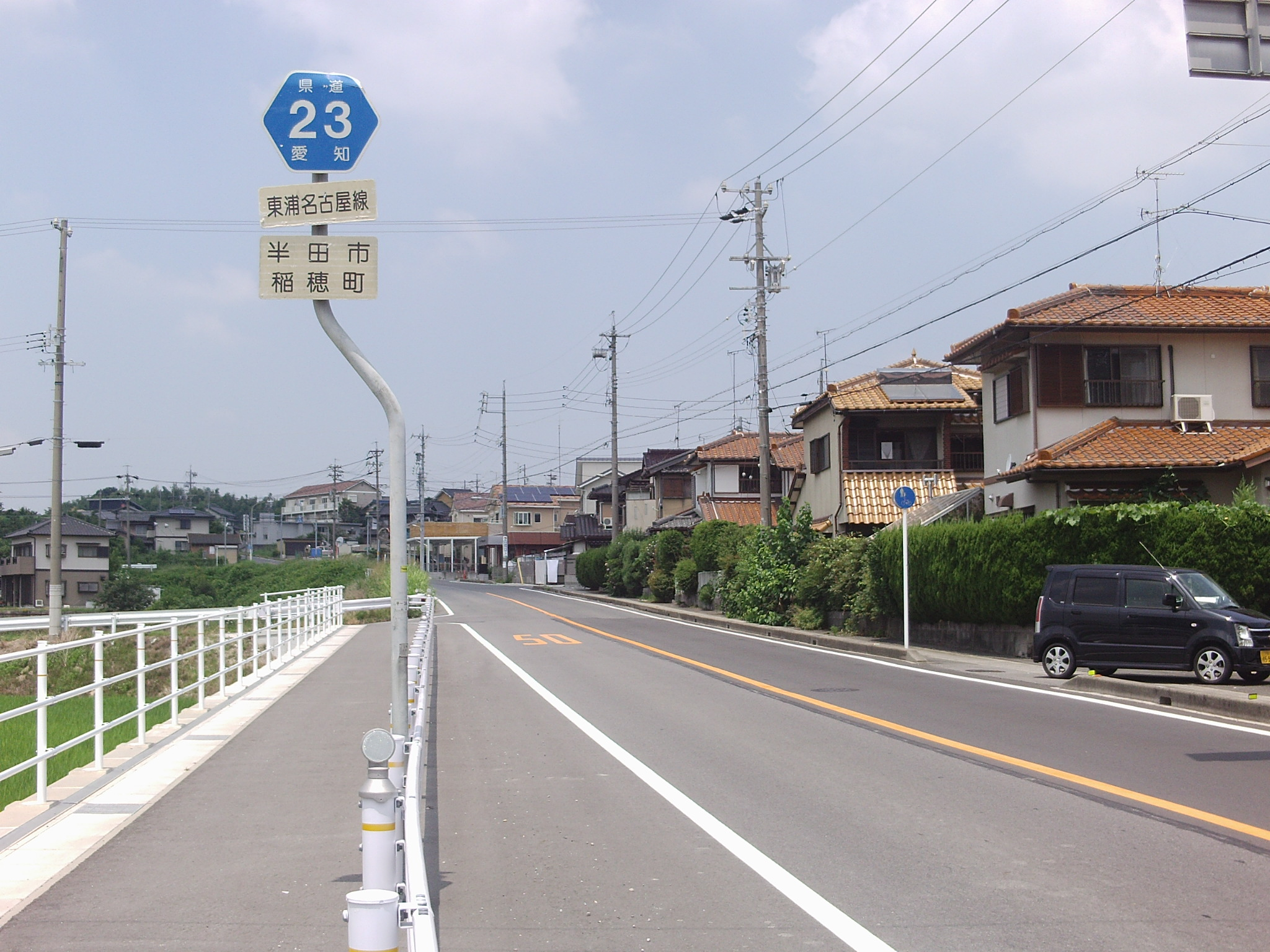 Aichi prefectural road No.23 in Inahocho, Handa, Aichi.